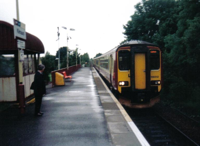 Kilmaurs Station, Ayrshire. 2006